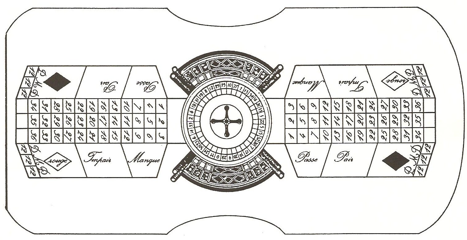 I took thos photograph of a document I own